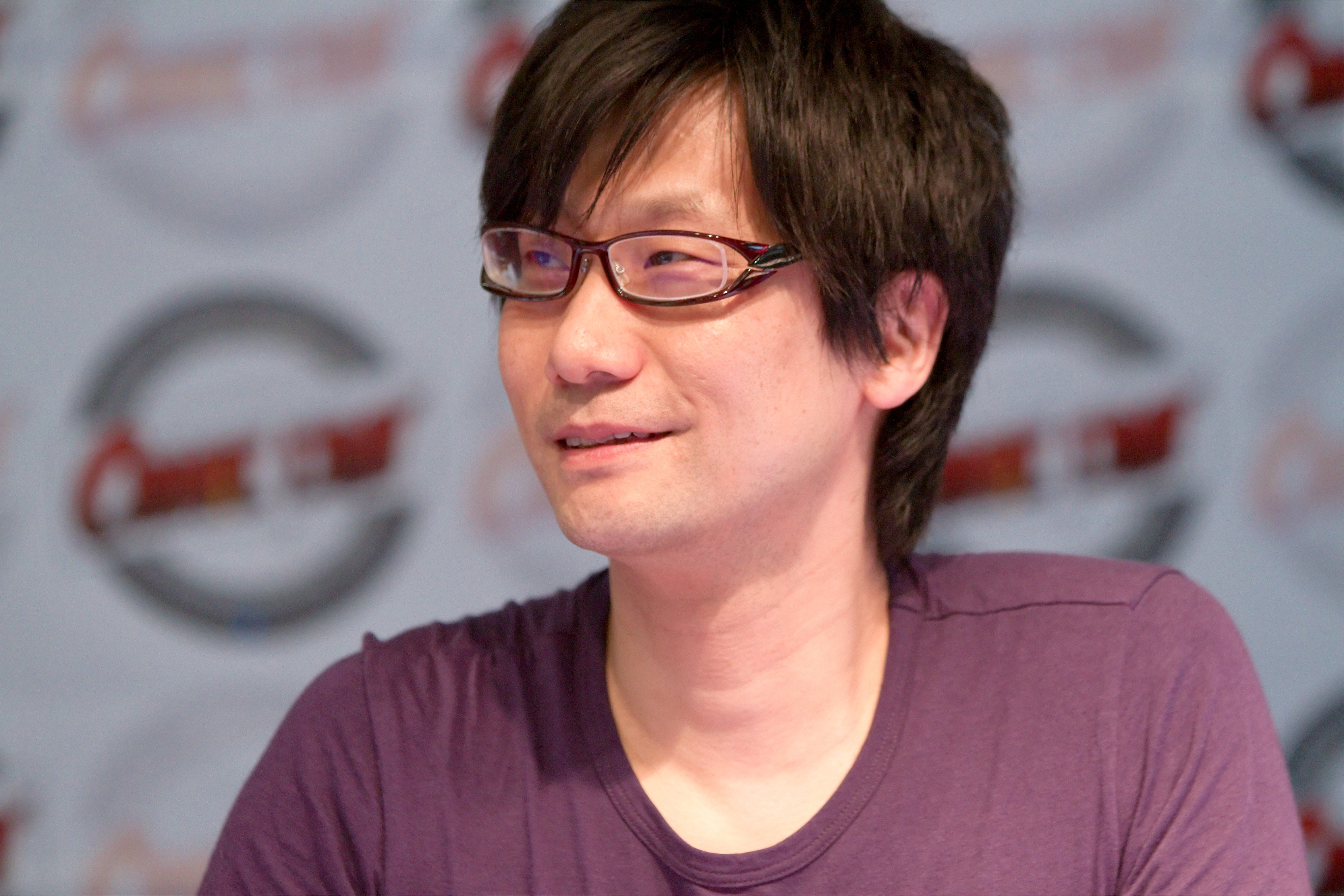 Autograph session with Hideo Kojima at Japan Expo 2010 (Paris, France).